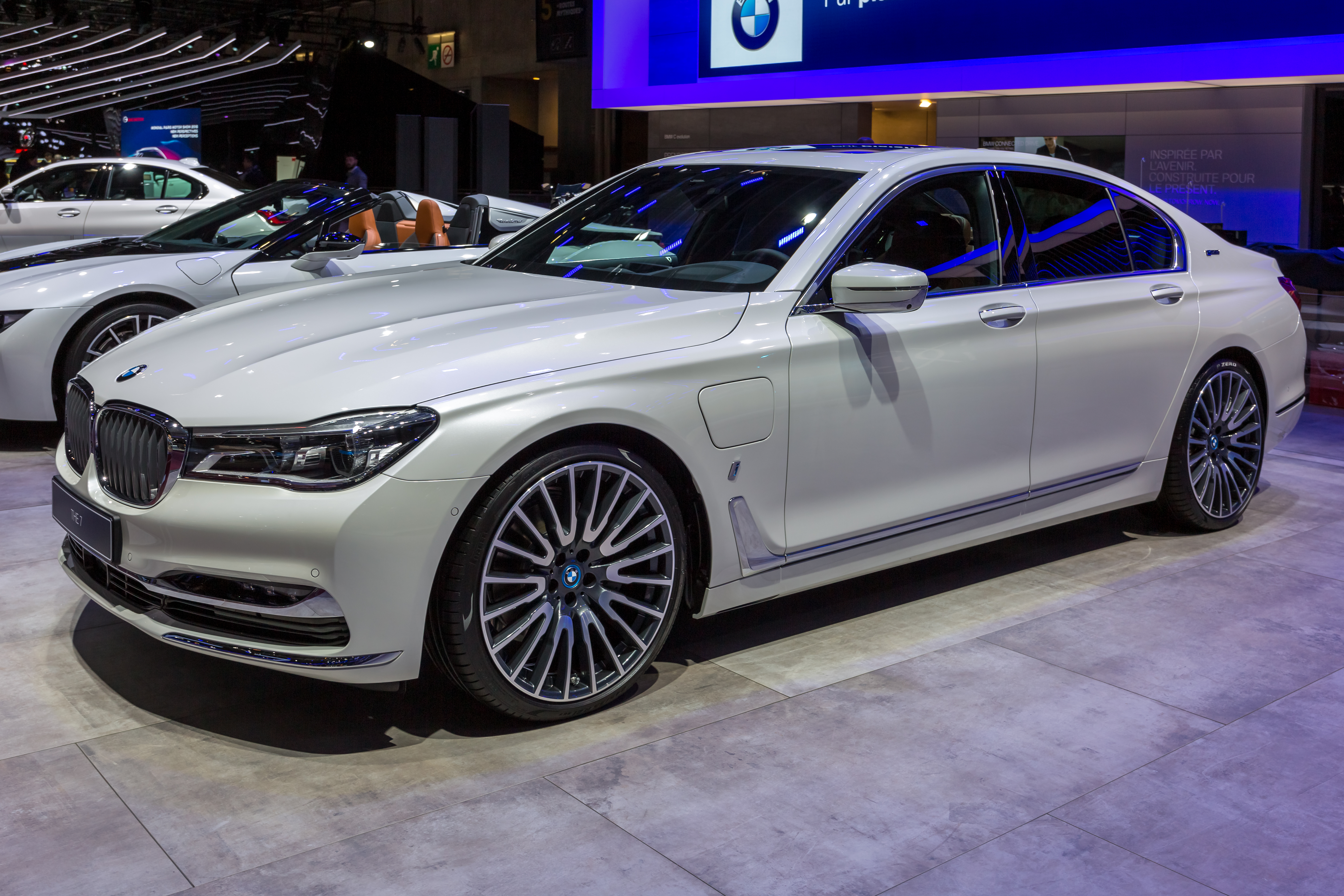 BMW 740e Plug-in Hybrid, Mondial Paris Motor Show 2018